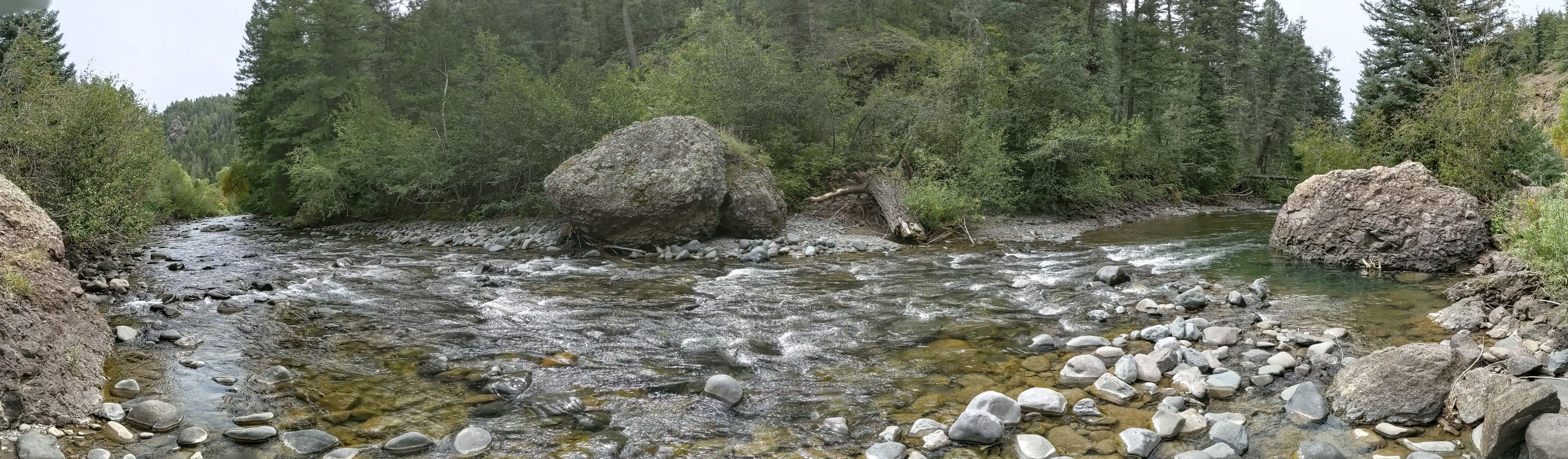 East Fork San Juan River, panoramic view